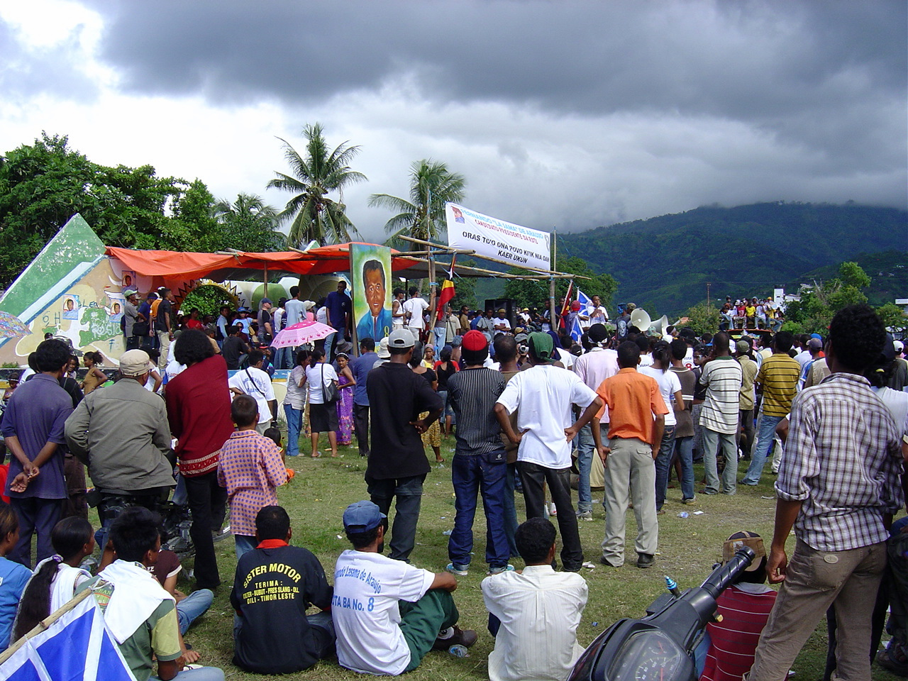 Campaign of Fernando de Araújo, presidential election 2007